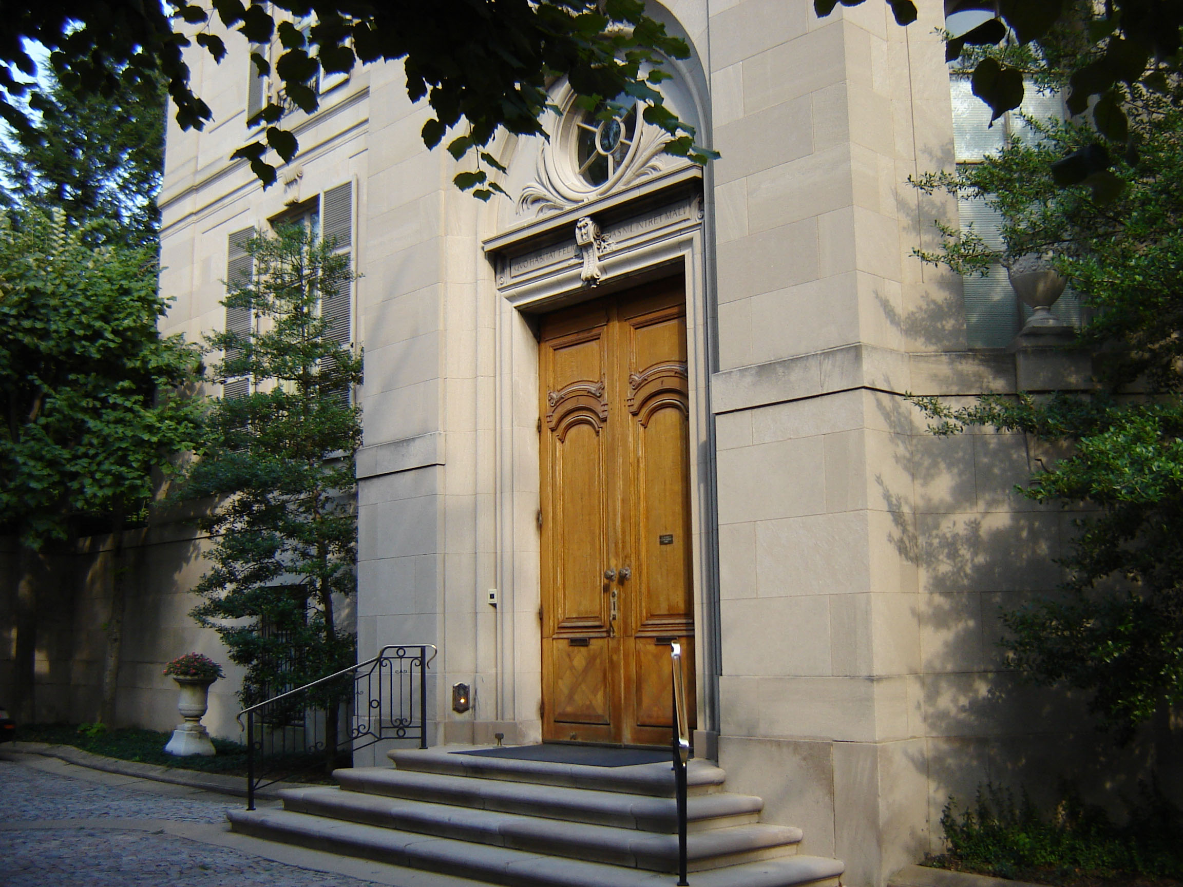 Main entrance of Meridian House, Washington, DC.